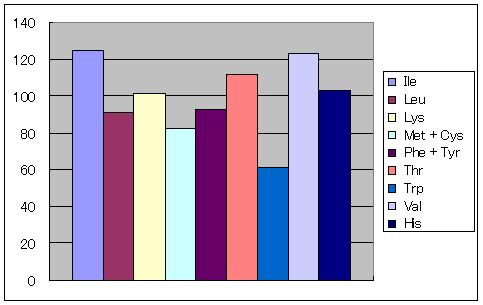 Amino acid of green peas